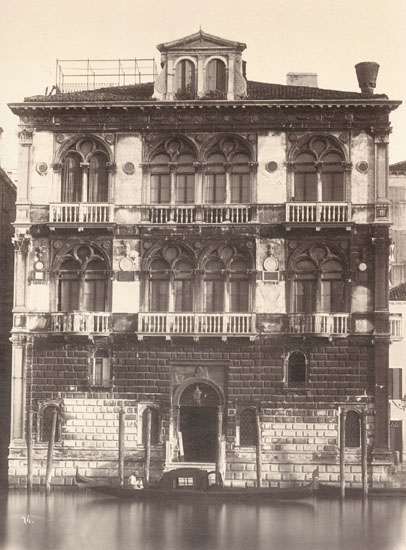 Carlo Naya (1822-1881) - Venice". Catalogue # 76.